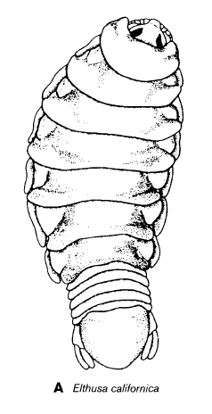 Full dorsal body sketch of E. californica demonstrating typical characteristics of the Elthusa genus.